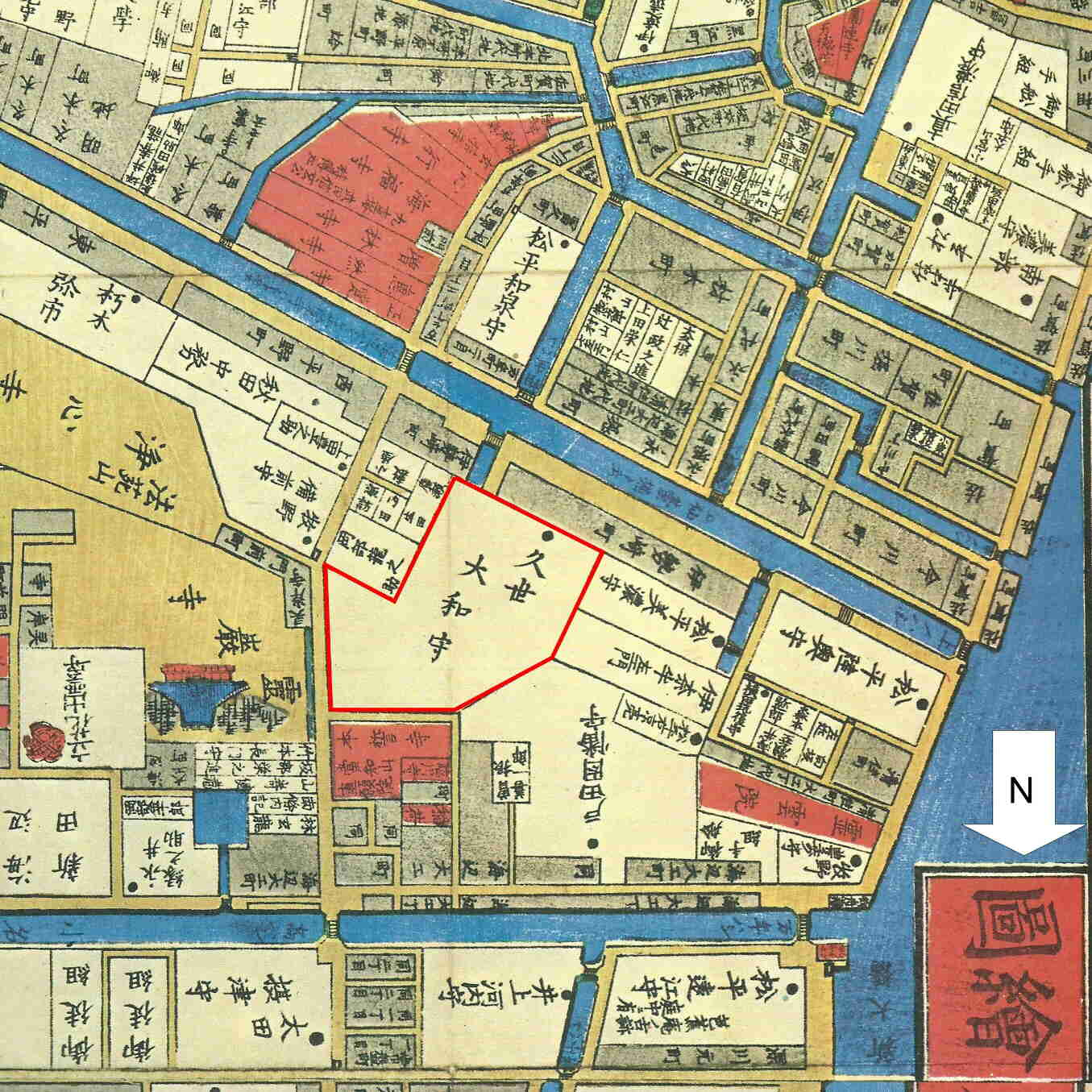 Detail of kiriezu type map, , part of Edo